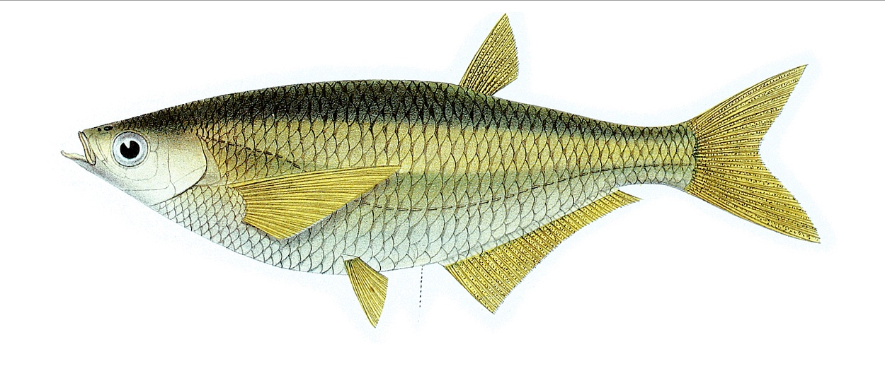 Chela anomalurus Bleeker 1860 = Oxygaster anomalura van Hasselt 1823